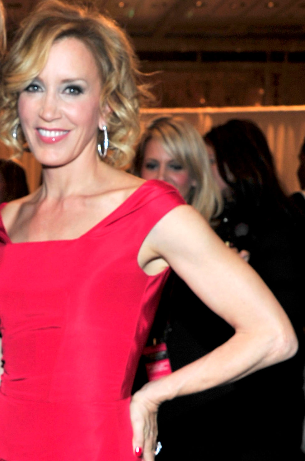 The Heart Truth® is a national awareness campaign for women about heart disease sponsored by the National Heart, Lung, and Blood Institute (NHLBI), part of the National Institutes of Health, U.S. Department of Health and Human Services (HHS). The Red Dress®, introduced by the NHLBI in 2002, is the national symbol for women and heart disease awareness. Visit for information on women and heart disease. William H. Macy, Felicity Huffman== HEART TRUTH RED DRESS 2010 Collection== NY Public Library, NYC== February 11, 2010== © Patrick McMullan== Photo - PATRICK MCMULLAN/PatrickMcMullan.com== == ®, TM The Heart Truth, its logo and The Red Dress are trademarks of HHS. Participation by Mercedes-Benz Fashion Week, Diet Coke, Swarovski, Tylenol, St. Joseph's Aspirin, Bobbi Brown, and Brian Atwood does not imply endorsement by HHS.